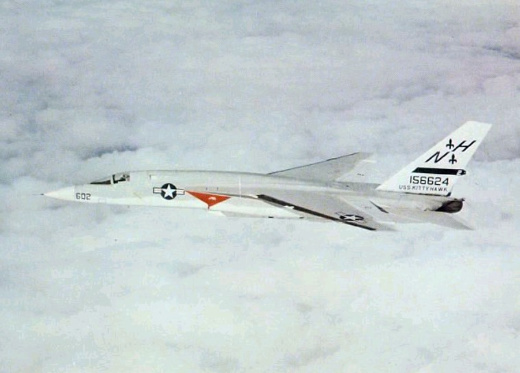 A U.S. Navy North American RA-5C Vigilante (BuNo 156624) of heavy reconnaissance squadron RVAH-6 Fleurs in 1970/71. RVAH-6 was assigned to Attack Carrier Air Wing 11 (CVW-11) aboard the aircraft carrier USS Kitty Hawk (CVA-63) for a deployment to Vietnam from 6 November 1970 to 17 July 1971. The RA-5C 156624 is today preserved at the National Museum of Naval Aviation at Pensacola, Florida (USA).